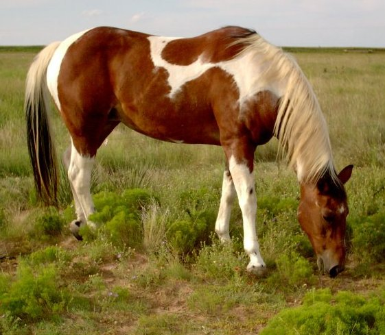 Photo of an American Paint Horse - Tobiano